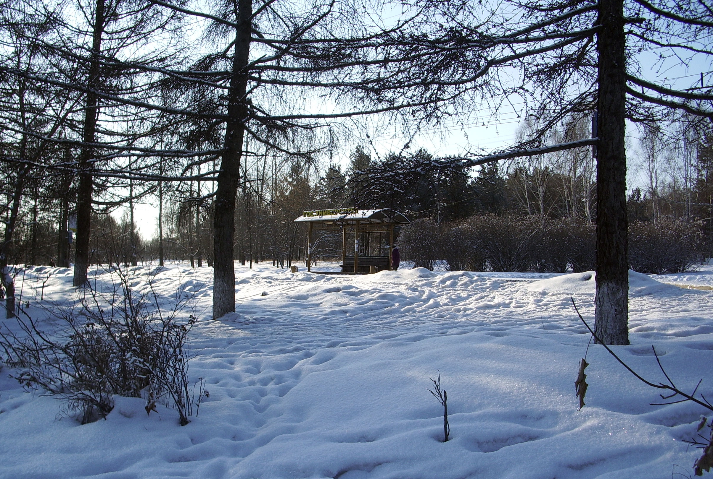 Bus stop in taiga, Irkutsk